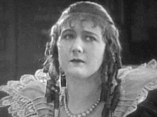 Mary MacLaren in Three Musketeers